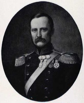 Adolph Wilhelm Dinesen (1807-1876), Danish army officer and estate owner (NB: his son bore the same name, but was known as "Wilhelm").